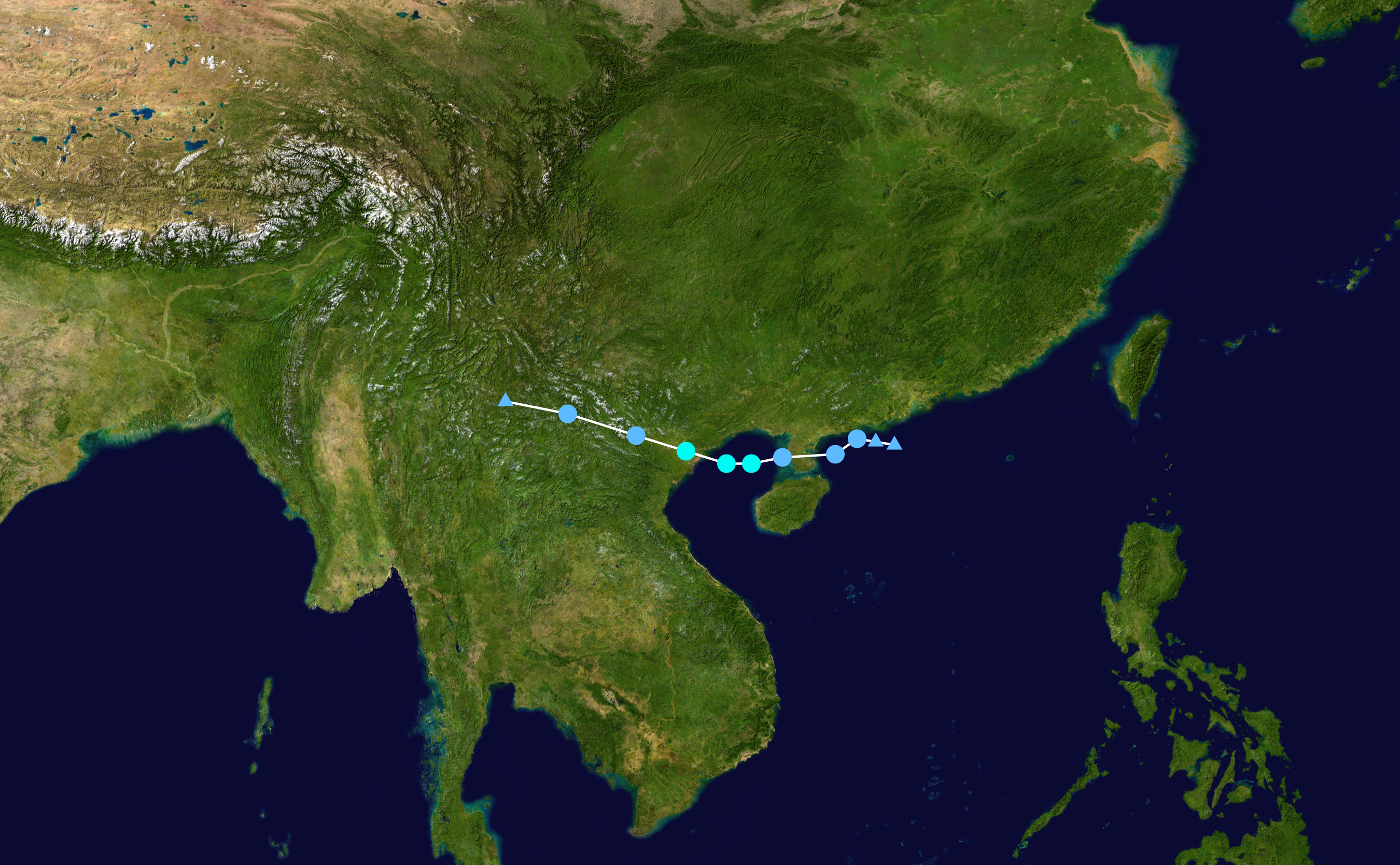 Track map of Tropical Storm Dianmu of the 2016 Pacific typhoon season. The points show the location of the storm at 6-hour intervals. The colour represents the storm's maximum sustained wind speeds as classified in the Saffir–Simpson scale (see below), and the shape of the data points represent the nature of the storm, according to the legend below. Saffir–Simpson scale Tropical depression≤38 mph≤62 km/h Category 3111–129 mph178–208 km/h Tropical storm39–73 mph63–118 km/h Category 4130–156 mph209–251 km/h Category 174–95 mph119–153 km/h Category 5≥157 mph≥252 km/h Category 296–110 mph154–177 km/h Unknown Storm type Tropical cyclone Subtropical cyclone Extratropical cyclone / Remnant low / Tropical disturbance / Monsoon depression